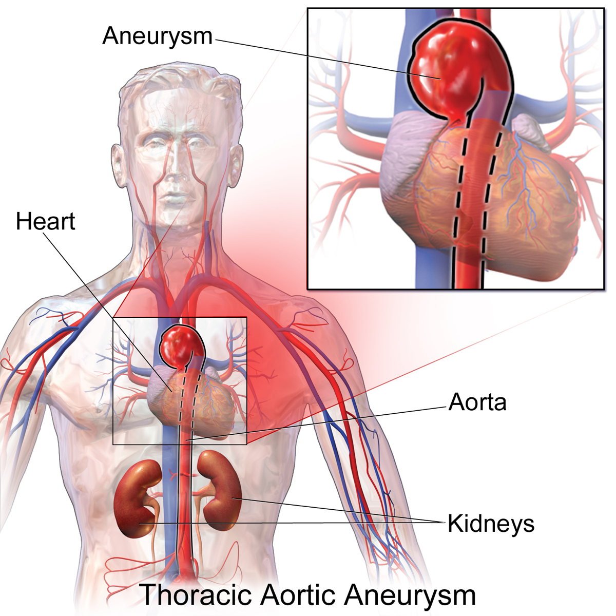 Thoracic Aortic Aneurysm. Animation in the reference.[1]